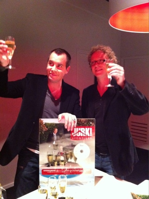 Jeroen van Koningsbrugge (left) & Dennis van de Ven (right) after winning a 'Gouden Plaat' in november 2010.